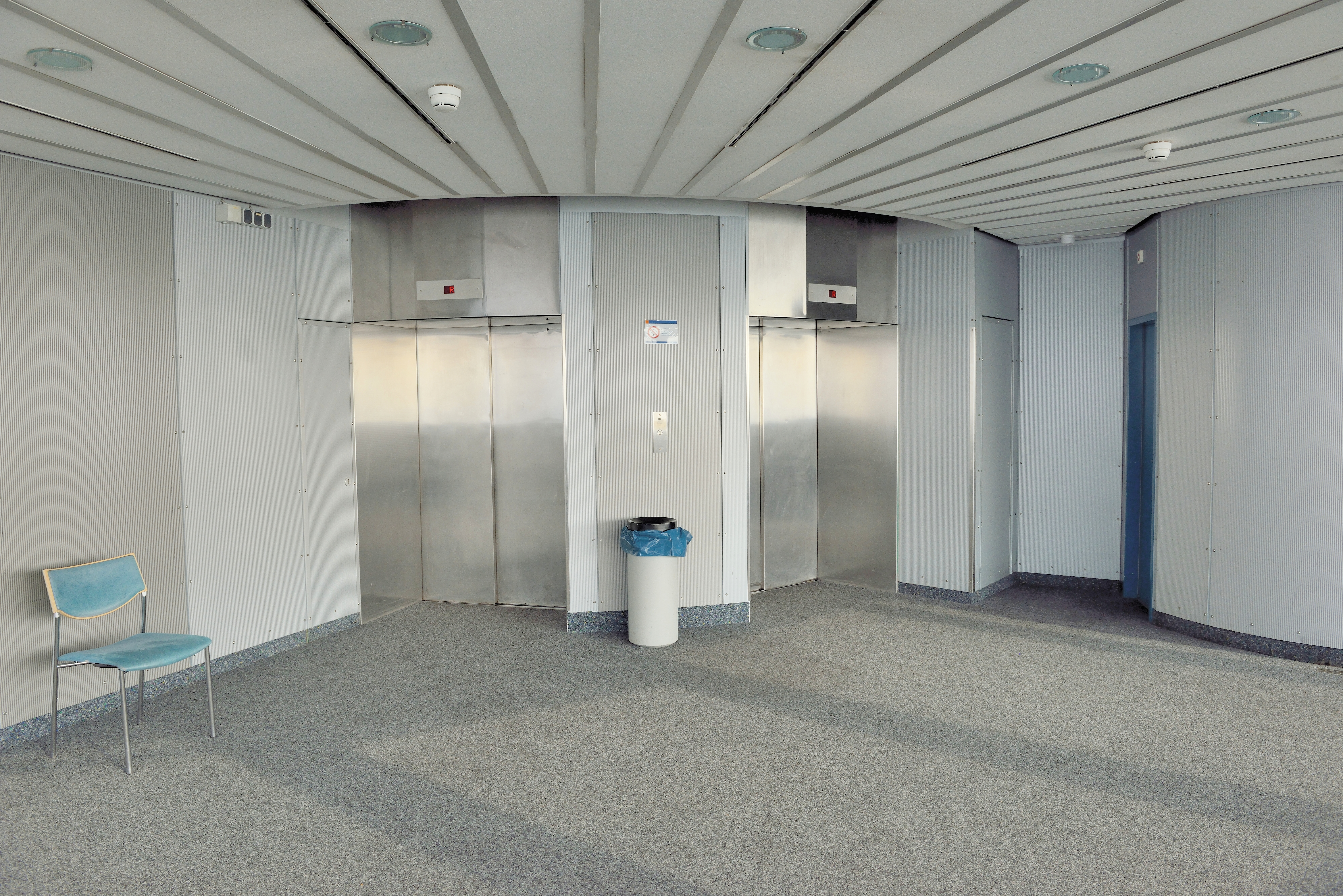 Mannheim television tower